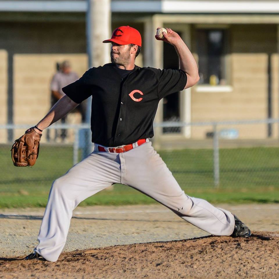 jhg